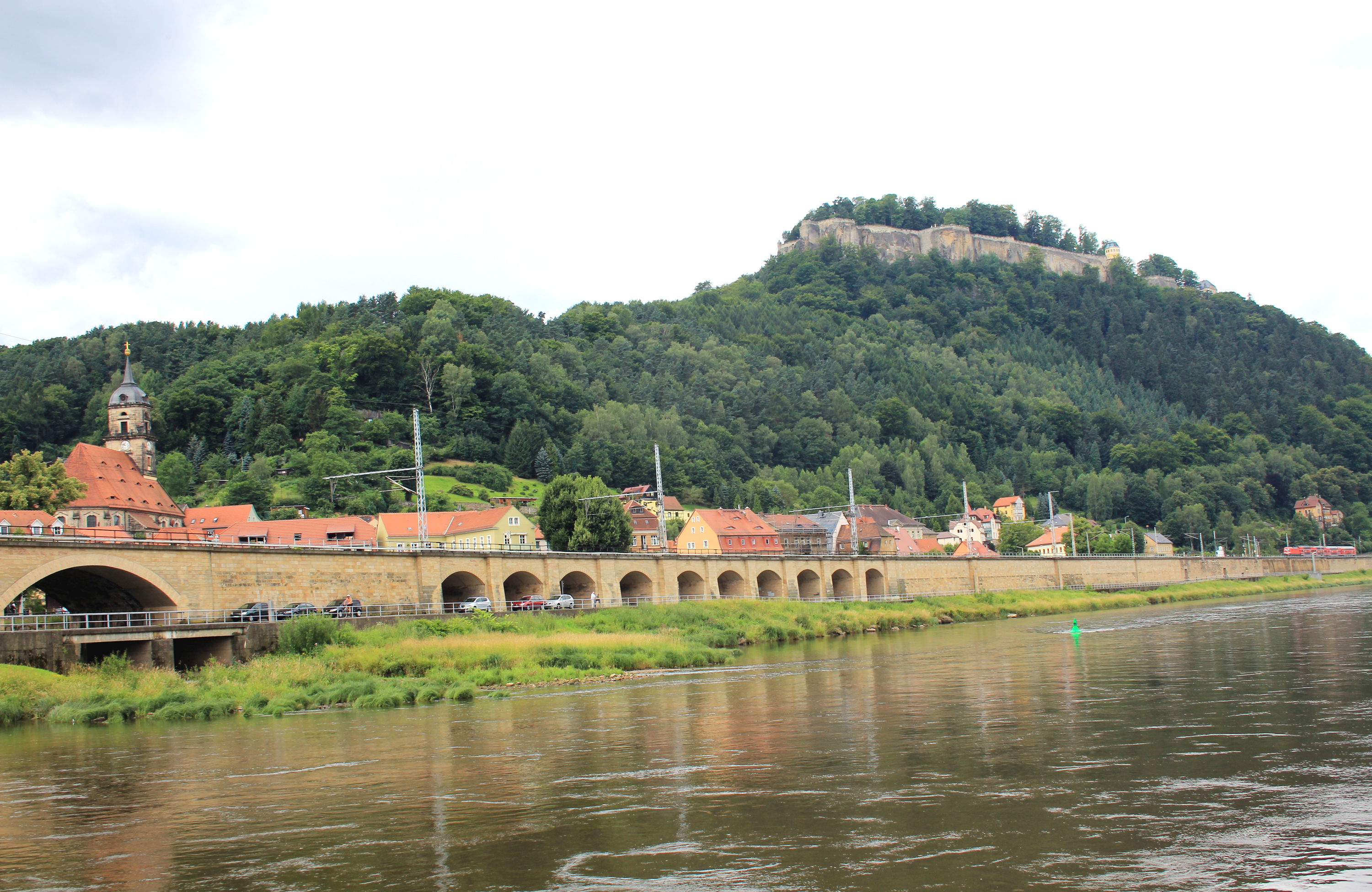 View on middle part of town Königstein and Königstein Fortress from boat on Elbe river in Germany